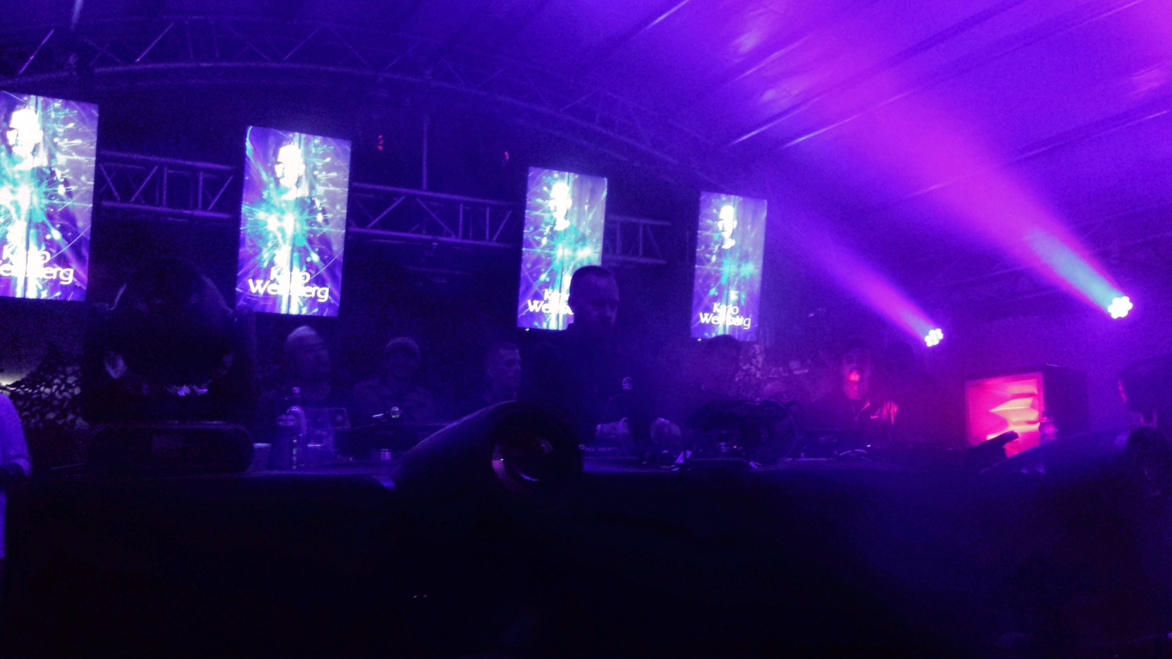 Karlo Weinberg Airport & Die Rakete Nature One 2019